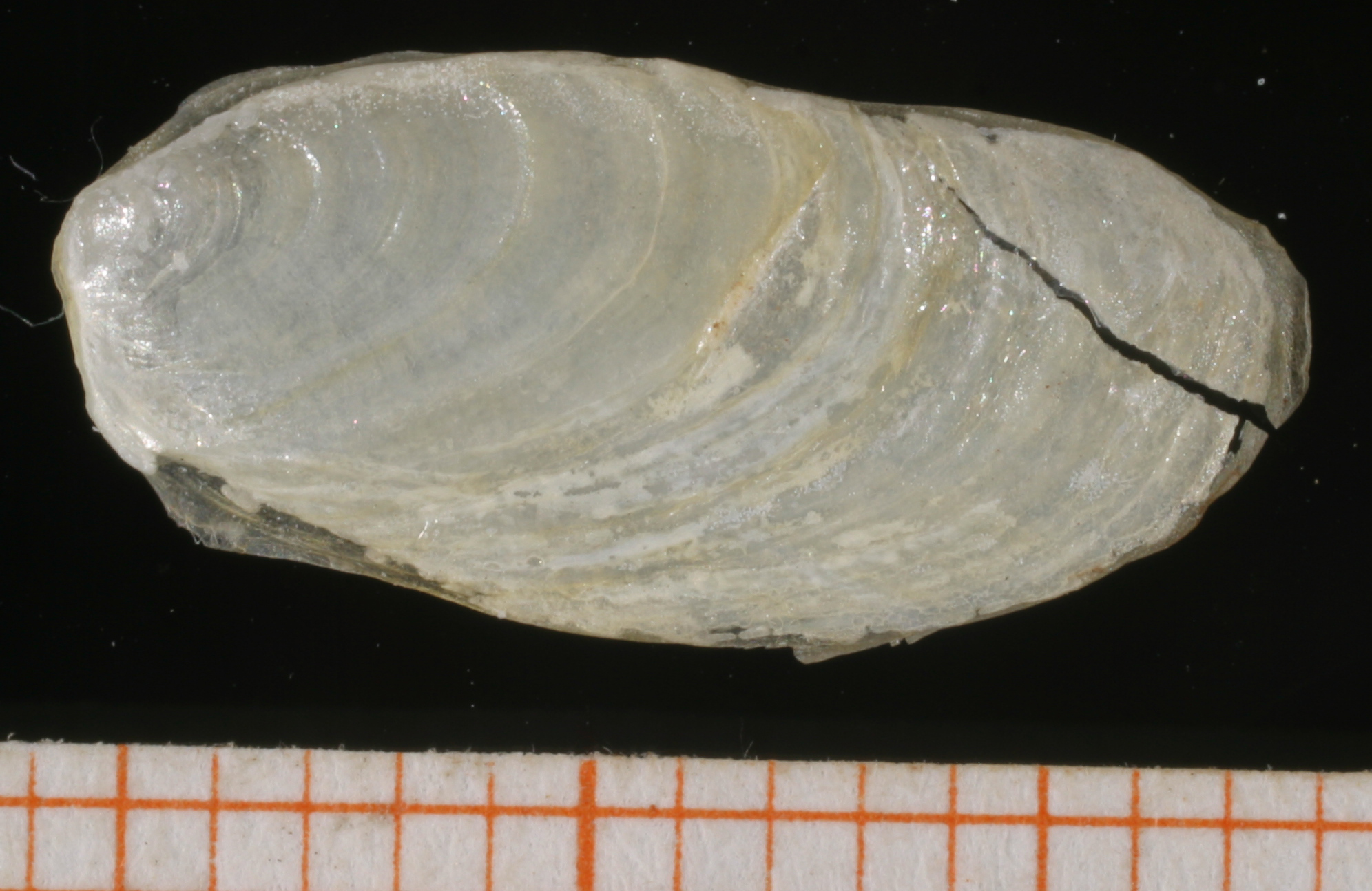 Photo of dorsal view of internal shell of Limax maximus. Scale in mm. Locality: N Germany: Kiel. Date: 08-1951.